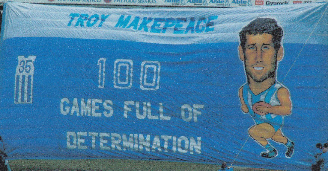 The pre-game banner for the North Melbourne Football Club during Round 14 of the AFL in 2004 (24 July) featuring Troy Makepeace for his 100th game for the club.